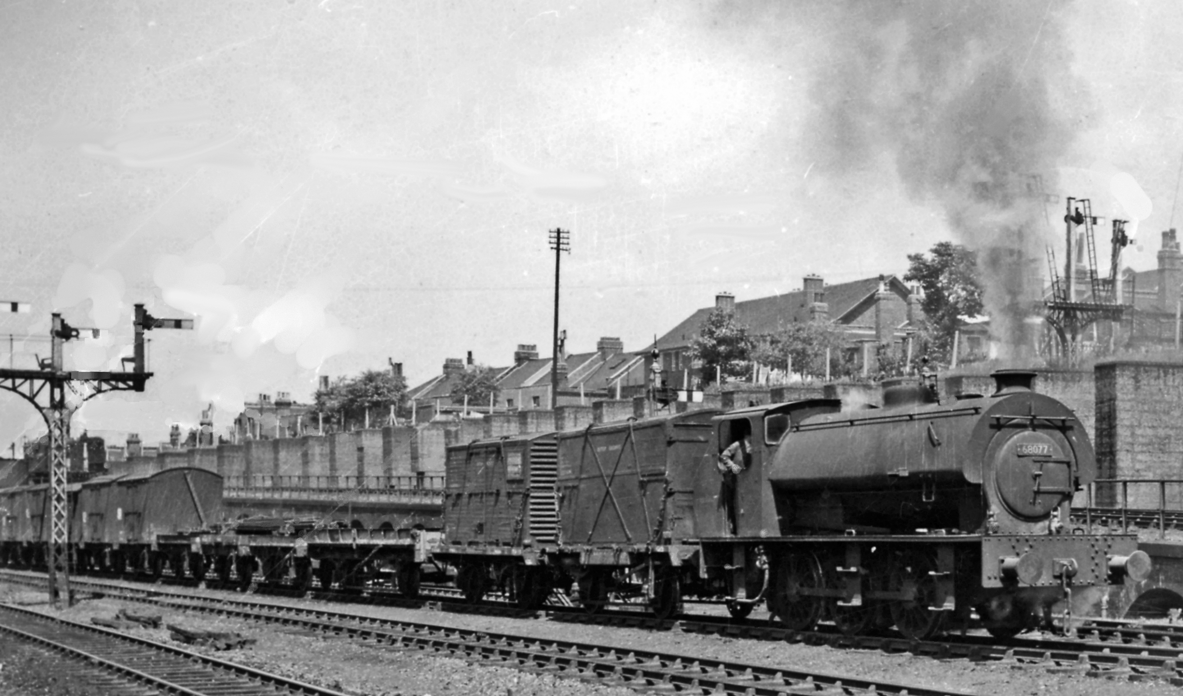 Up freight at Harringay West, with ex-WD 0-6-0T Leaving Ferme Park Up Yard, probably for New Cross Gate (SR) via Blackfriars Bridge and London Bridge (see single lamp in the centre of the buffer-beam), the train is headed by one of the ex-WD 0-6-0ST acquired by the LNER (see NZ2914 : Scene northward from footbridge at north end of Darlington Bank Top station), No. 68077 was built in 1/47 as WD No. 71466 and withdrawn in 12/62 but was preserved and acquired by the heritage Spa Valley Railway.